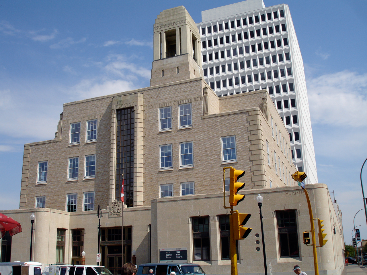 This Art Deco building, completed in 1937, was built as a make-work project during the Great Depression. It is the third building to stand on the site - the first was Regina's first courthouse, where Louis Riel was tried in 1885.